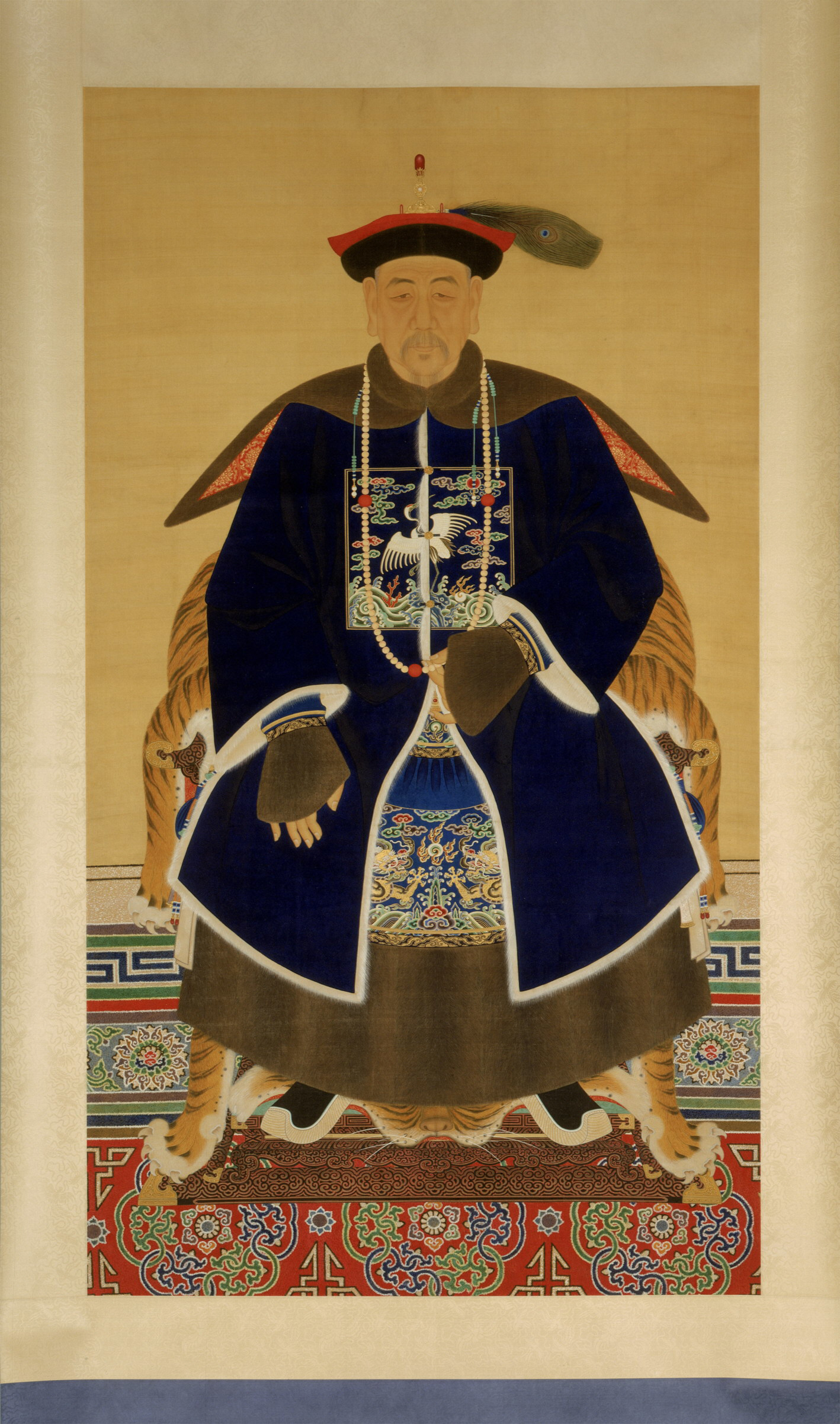 Lirongbao